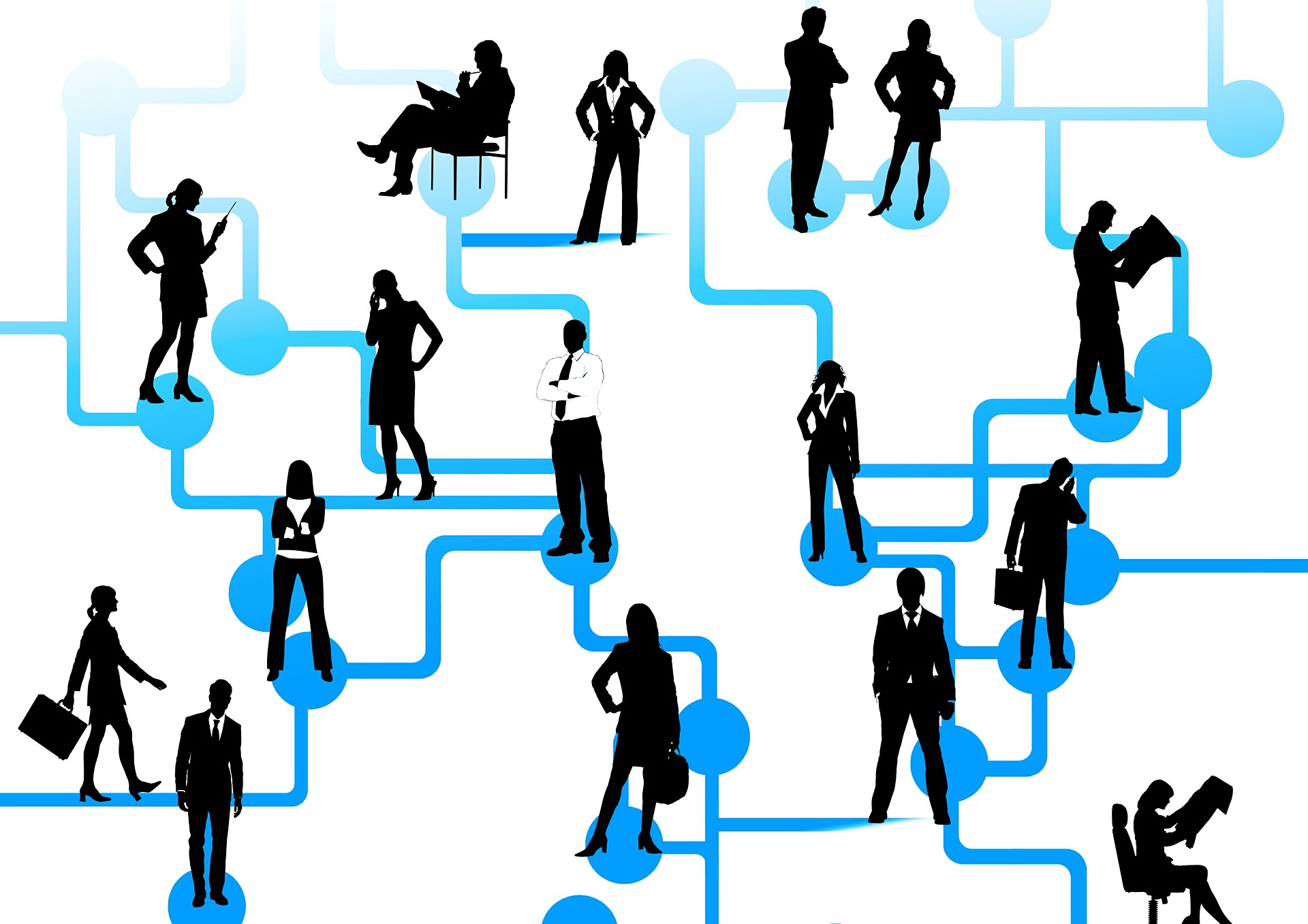 A graphic representation of digital social networks